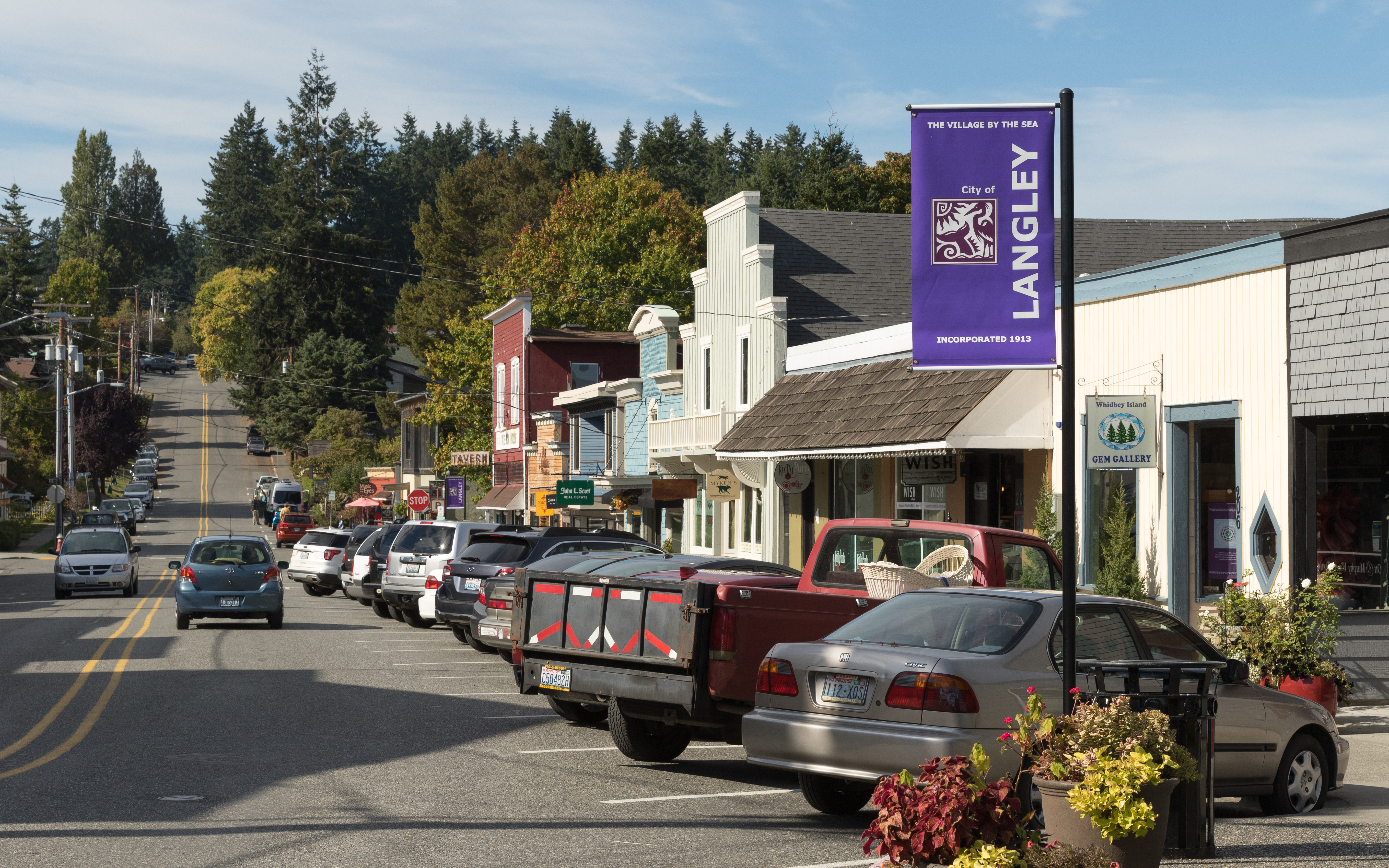 Main Street in Langley, Whidbey Island, Washington State